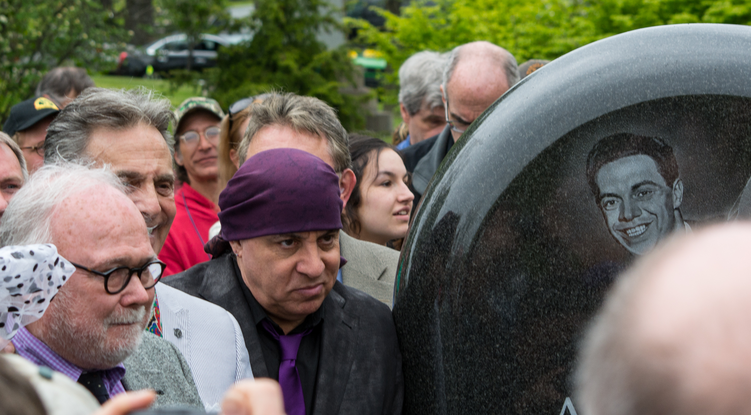 Steven Van Zandt at the dedication of the Alan Freed memorial in Lake View Cemetery in Cleveland Heights, Ohio, on May 7, 2016. Freed died in 1965 and was cremated. His ashes remained in the hands of the family until 2002, when they were put on display at the Rock and Roll Hall of fame. The museum asked that the ashes be removed in 2014. The family sought interment at Lake View Cemetery. Van Zandt, a rock history advocate, suggested the idea of a jukebox-like memorial over the burial site.